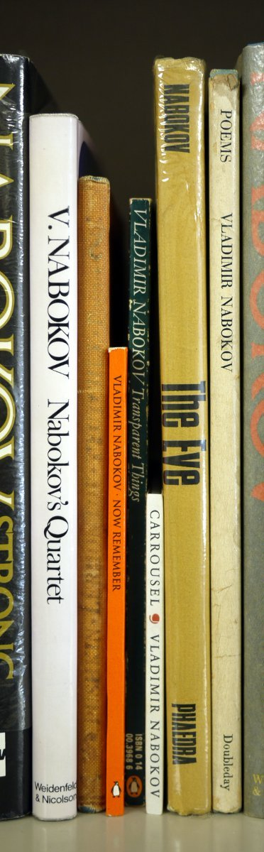 Some smaller books by Vladimir Nabokov: Nabokov's Quartet; Pushkin, Lermontov, Tyutchev: Poems; Now Remember; Transparent Things; Carrousel; The Eye; Poems